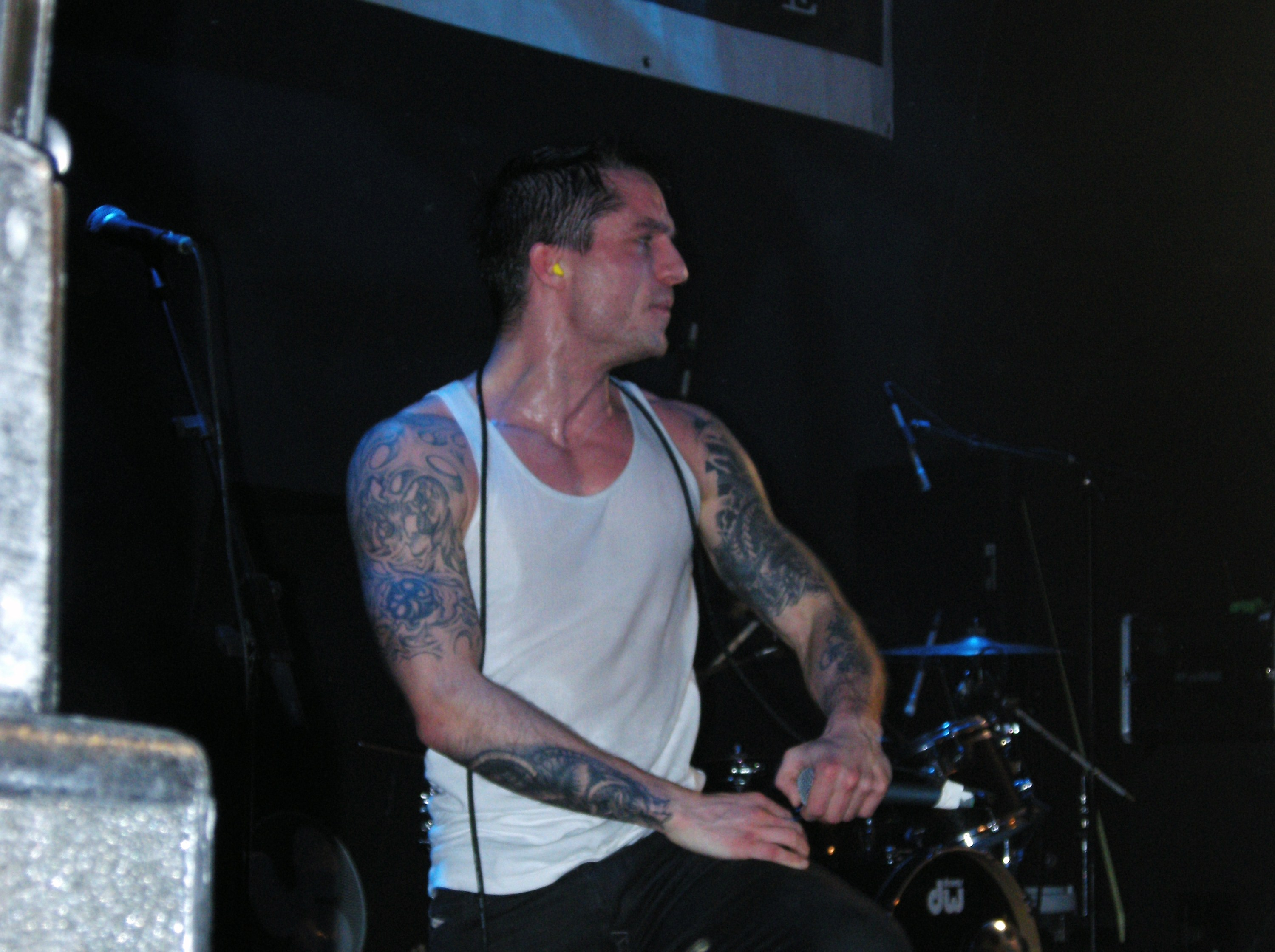 Singer Alexander Hagman Rajkovic of Swedish hardcore band Raised Fist at Close-Up boat February 2011